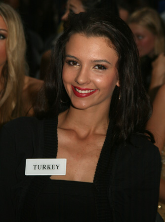 Miss Turkey 2008 Leyla Tugutlu during Miss World 08